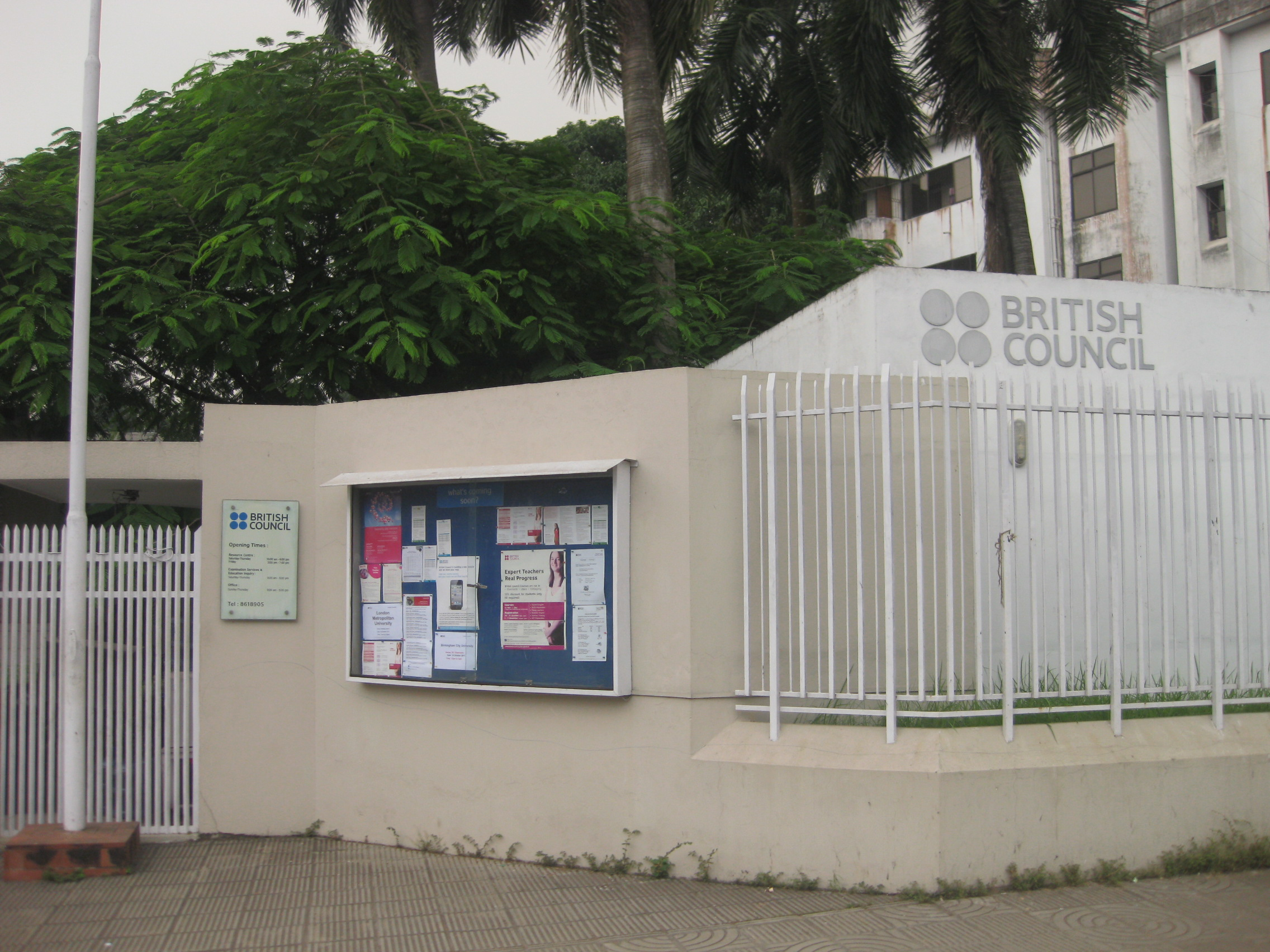 British Council Dhaka Office, University of Dhaka, Bangladesh.